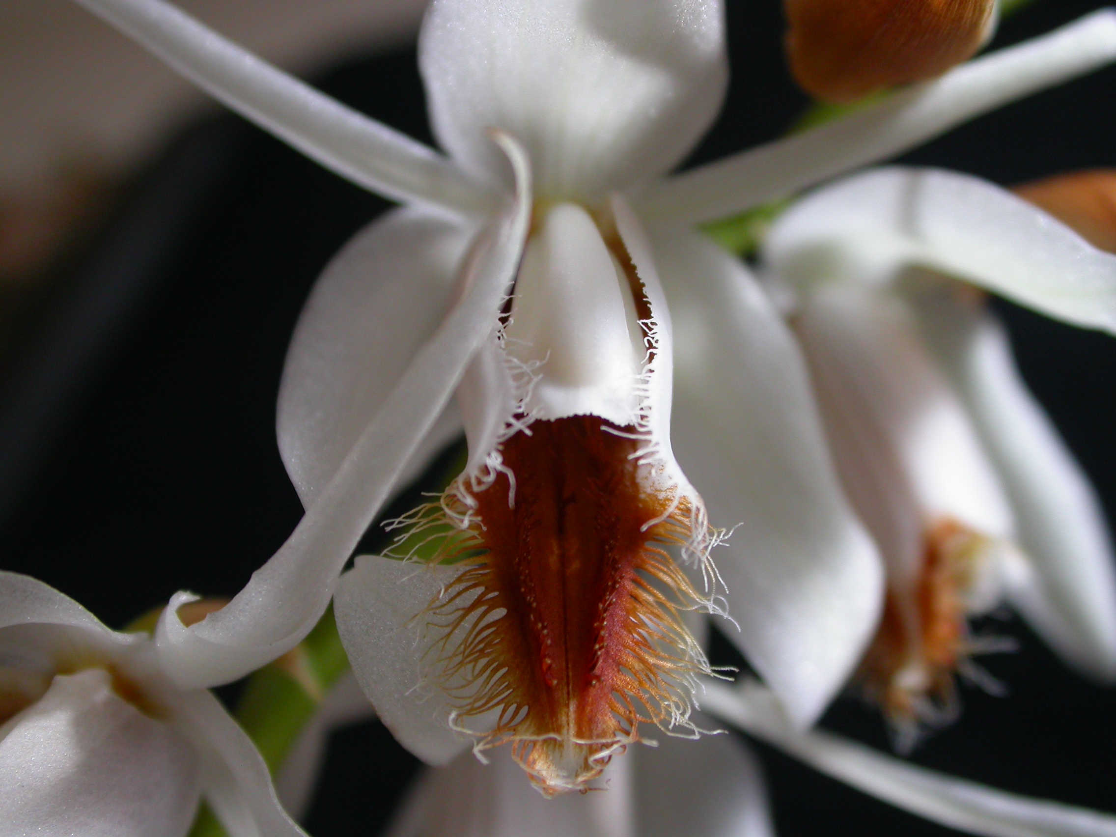 Coelogyne barbata lip